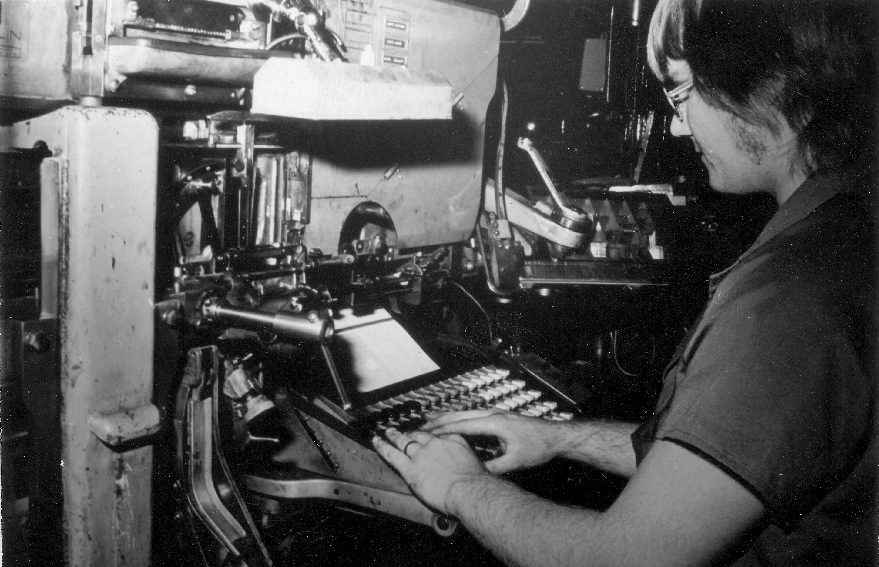 Linotype, typesetting machine by which characters are cast in type metal as a compete line rather than as individual characters as on the Monotype typesetting machine. It was patented in the United States in 1884 by Ottmar Mergenthaler. Linotype, which has now largely been supplanted by photocomposition, was most often used when large amounts of straight text matter were to be set. In the Linotype system, the operator selects a magazine containing brass matrices to mold an entire font of type of the size and face specified in the copy at hand. A keyboard is manipulated (or driven by paper or magnetic computer tape) to select the matrices needed to compose each line of text, includin tapered spacebands, which automatically wedge the words apart to fill each line perfectly. Each matrix is transported to an assembling unit at the mold. The slugs produced by the machine are rectangular solids of type metal (an alloy of lead, antimony, and tin) as long as the line or column measure selected. Raised characters running along the top are a mirror image of the desired printed line. After hot-metal casting, a distributing mechanism returns each matrix to its place in the magazine. The slug of type, air-cooled briefly, is then placed in a "stick" for insertion in the proper position into the press form being assembled or made up. From the Encyclopaedia Britannica. Queensland State Archives Image ID 3731